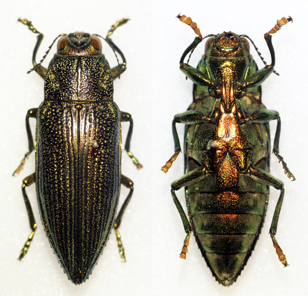 Buprestidae - in collection